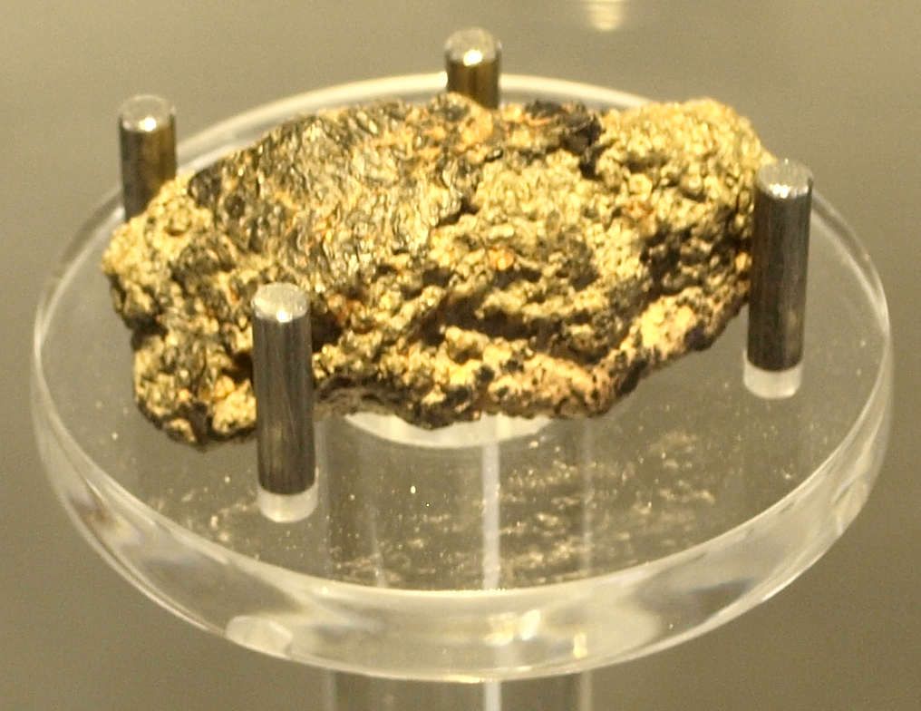 A shergottite (Martian meteorite) originally from Morocco, on display at the Ontario Science Centre, Toronto.